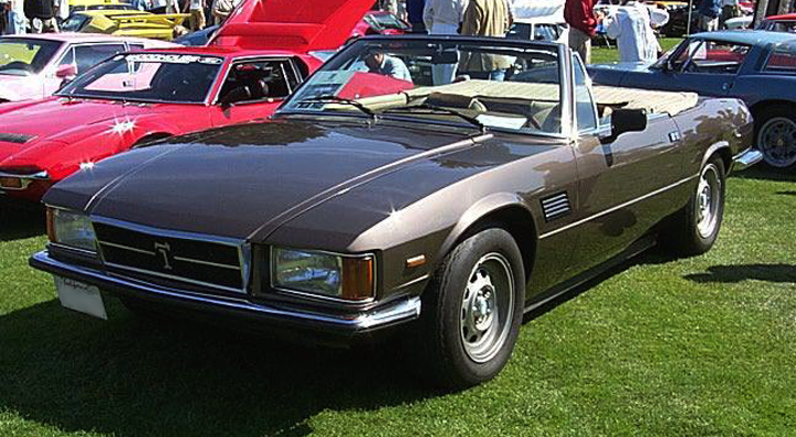 Early production DeTomaso Longchamp Spider